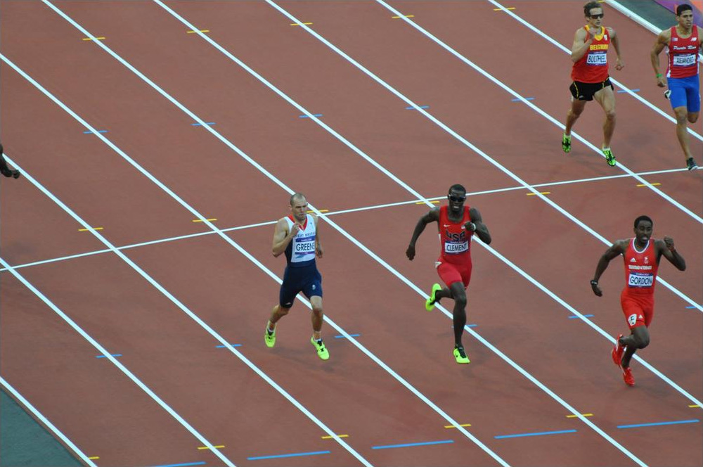 Dai Greene qualifying